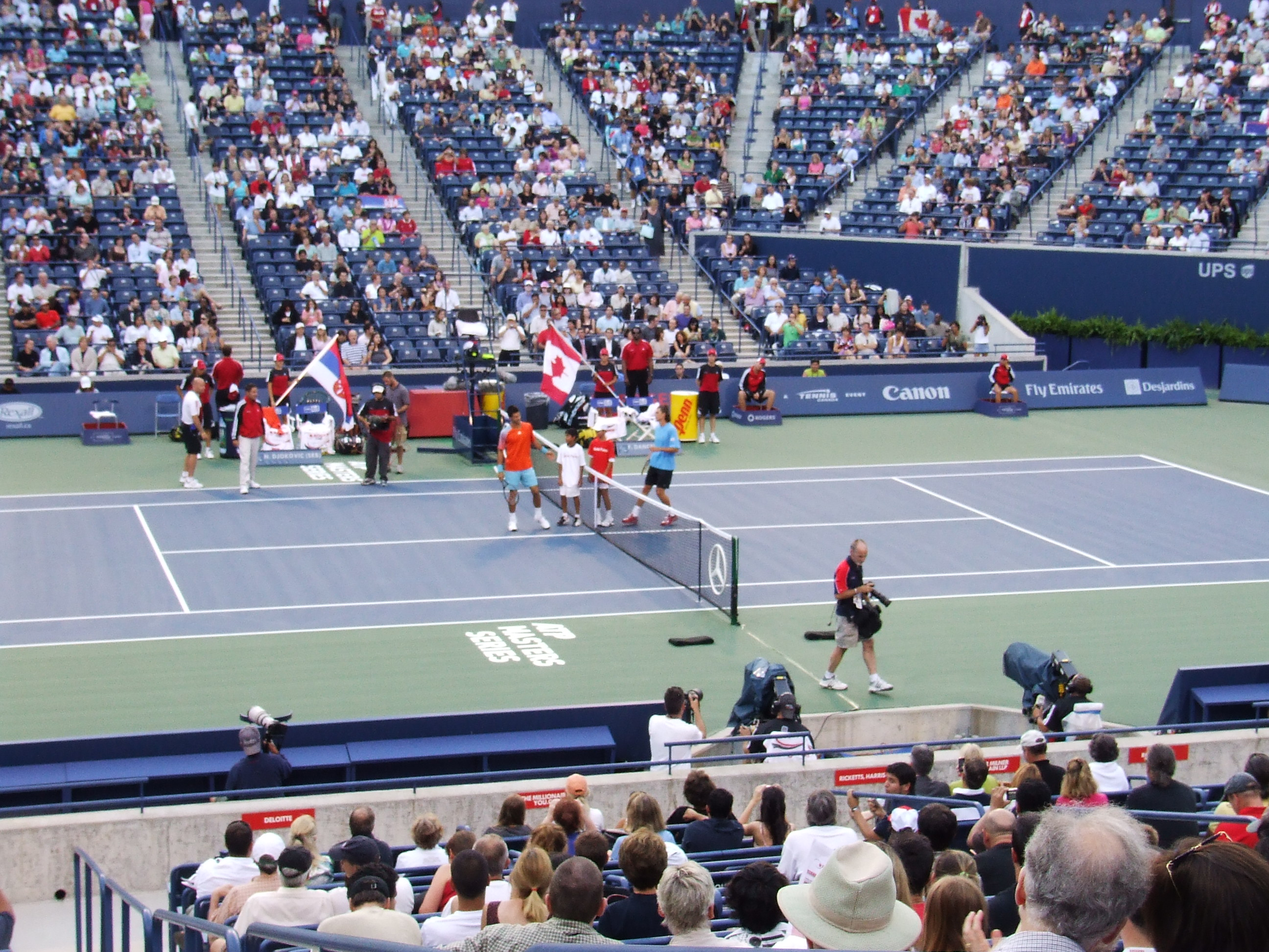 Novak_Djokovic_vs_Frenk_Dancevic, Rogers Cup, York, Toronto 2008